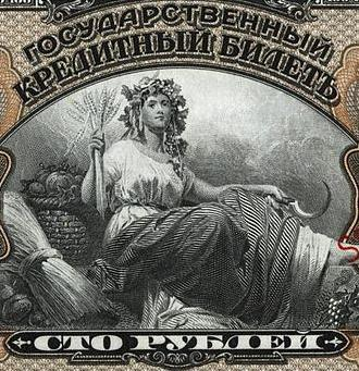 Vignette on 100 roubles 1918.jpg